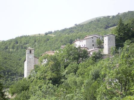 The Village of Cammoro (Umbria, Italy - see Cammoro on ) seen from Palombaio. Author: Anneliese Defranceschi Picture taken on Aug 19 2006 at noon with a Ricoh Caplio RR30